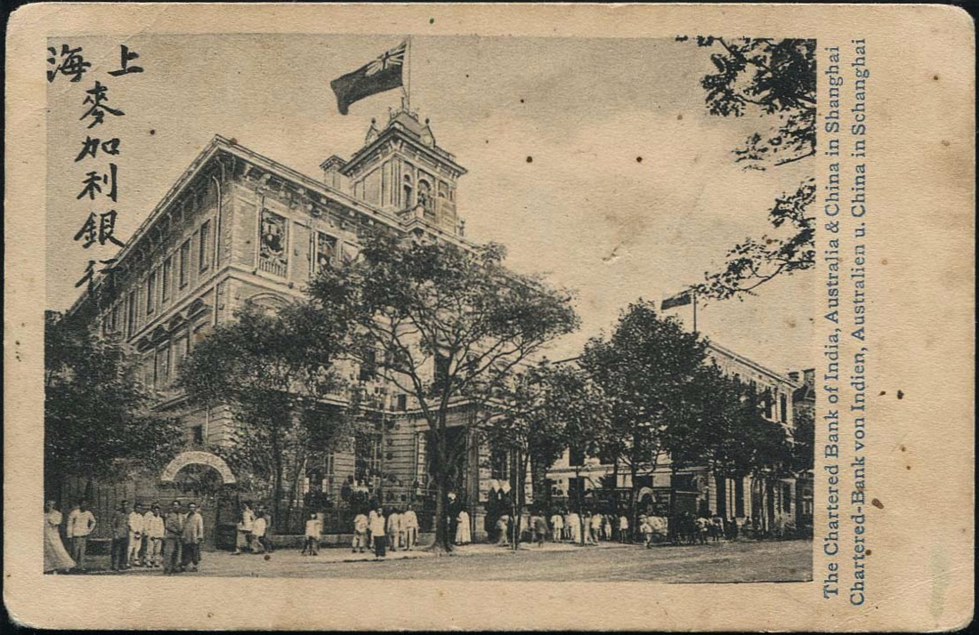 Chartered Bank of India, Australia and China in Shanghai